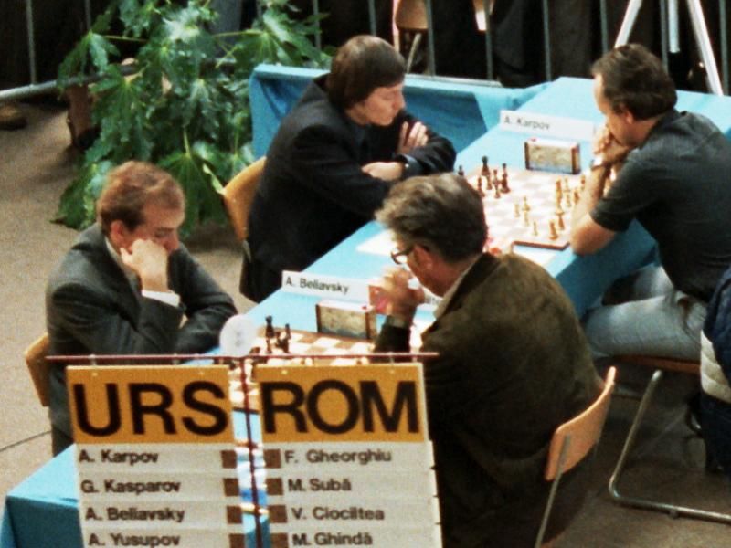 Alexander Beliavsky, Victor Ciocâltea, Anatoly Karpov and Florin Gheorghiu, Chess Olympiad 1982 in Luzern, Photographer Gerhard Hund.